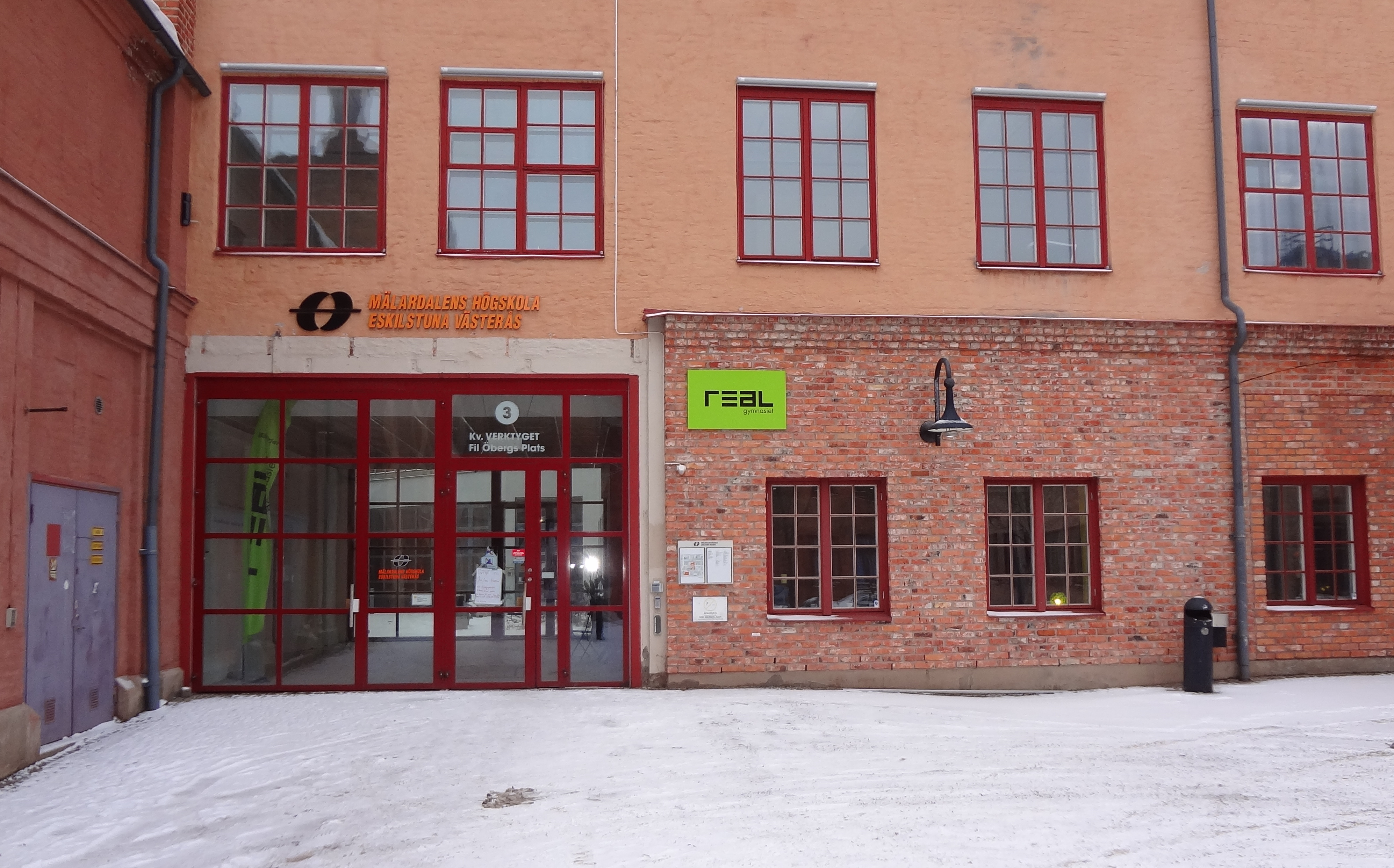 School "Realgymnasiet" in Eskilstuna, Sweden.